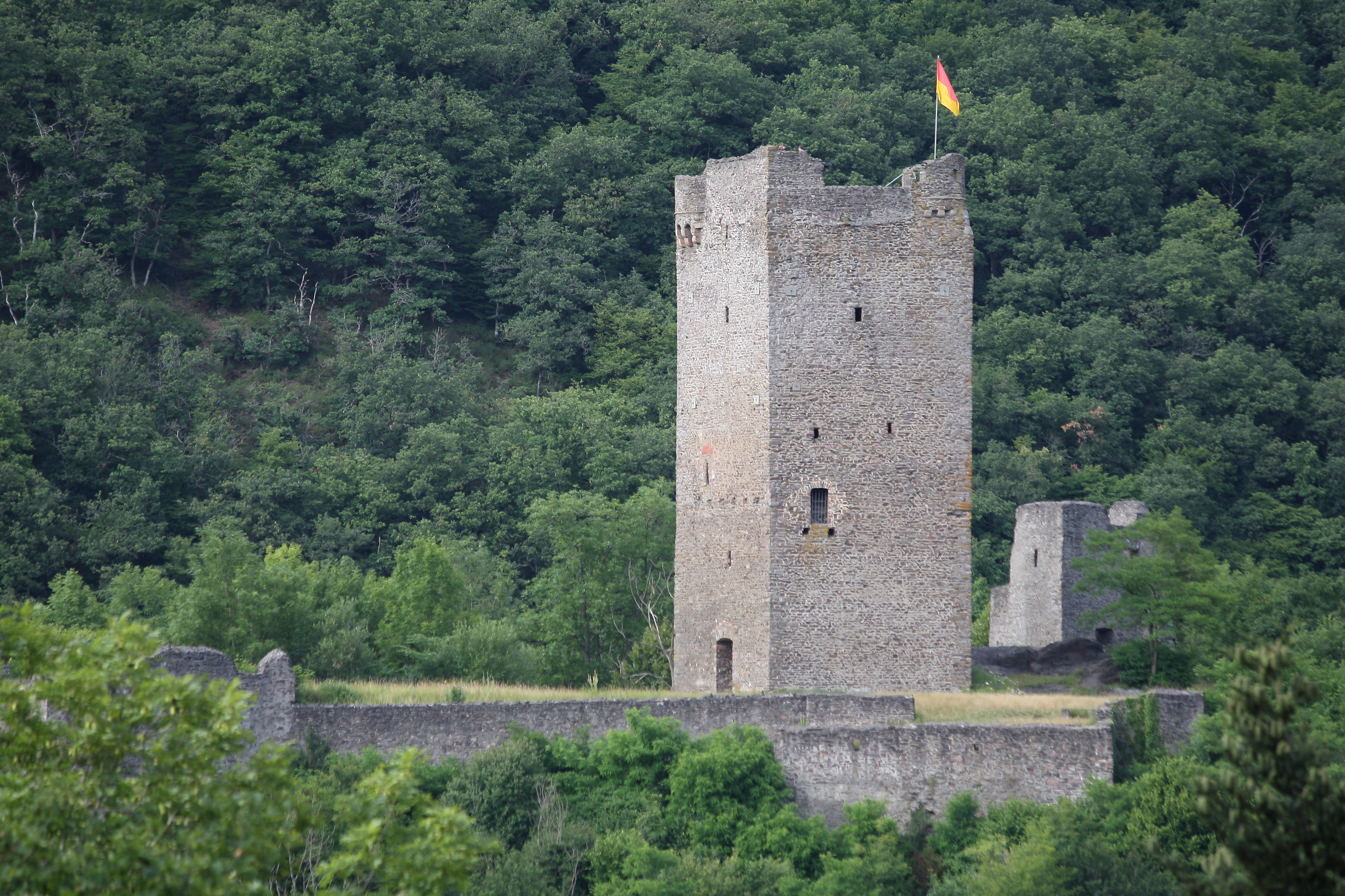 Ruin of the upper of the medival castles of Manderscheid